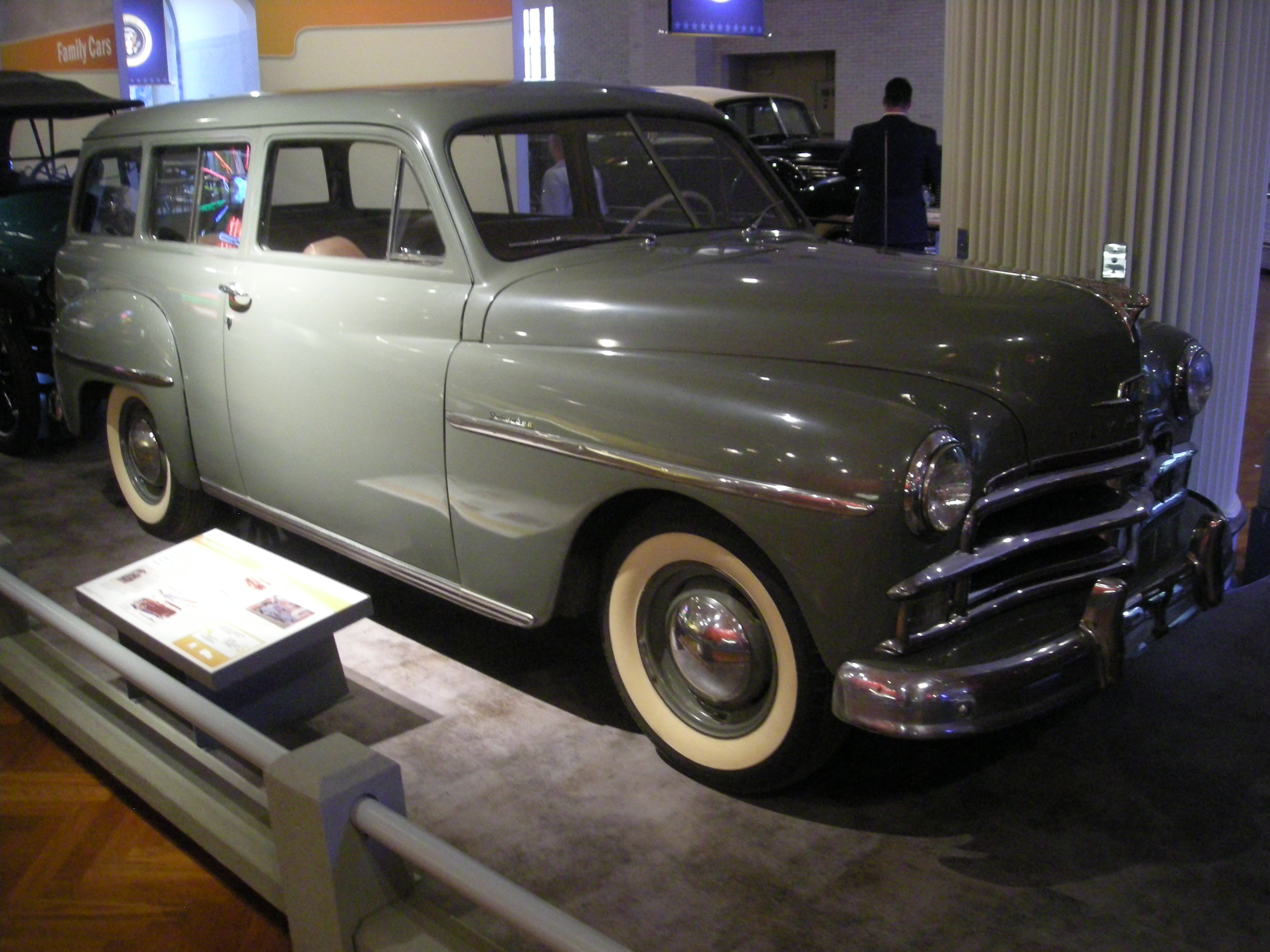 A 1950 Plymouth Deluxe Suburban station wagon on display at the Henry Ford Museum in Dearborn, Michigan (United States).